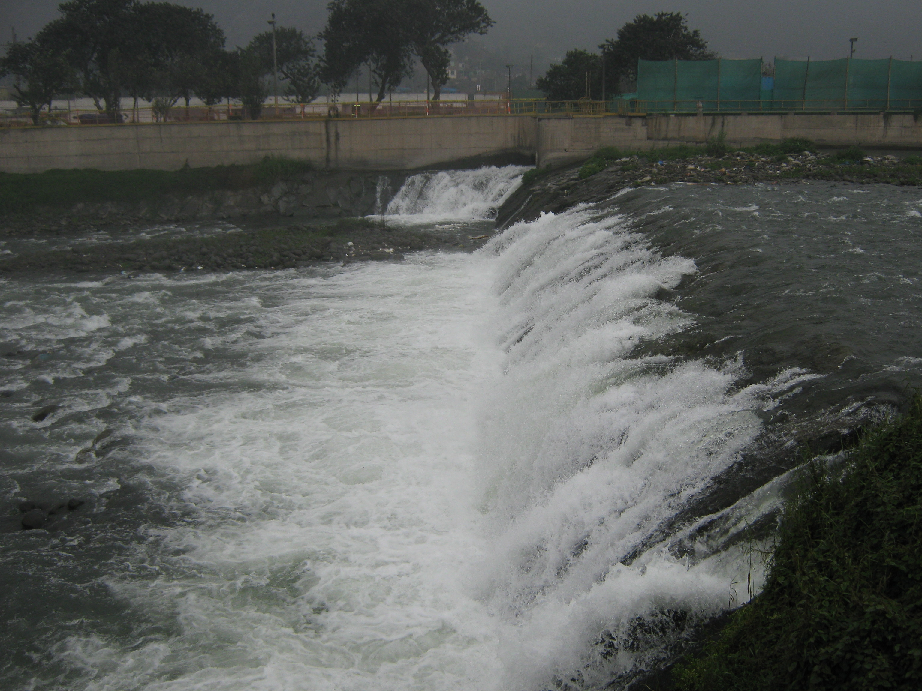 Rímac River seen from Huachipa Zoo, Lima, Peru.